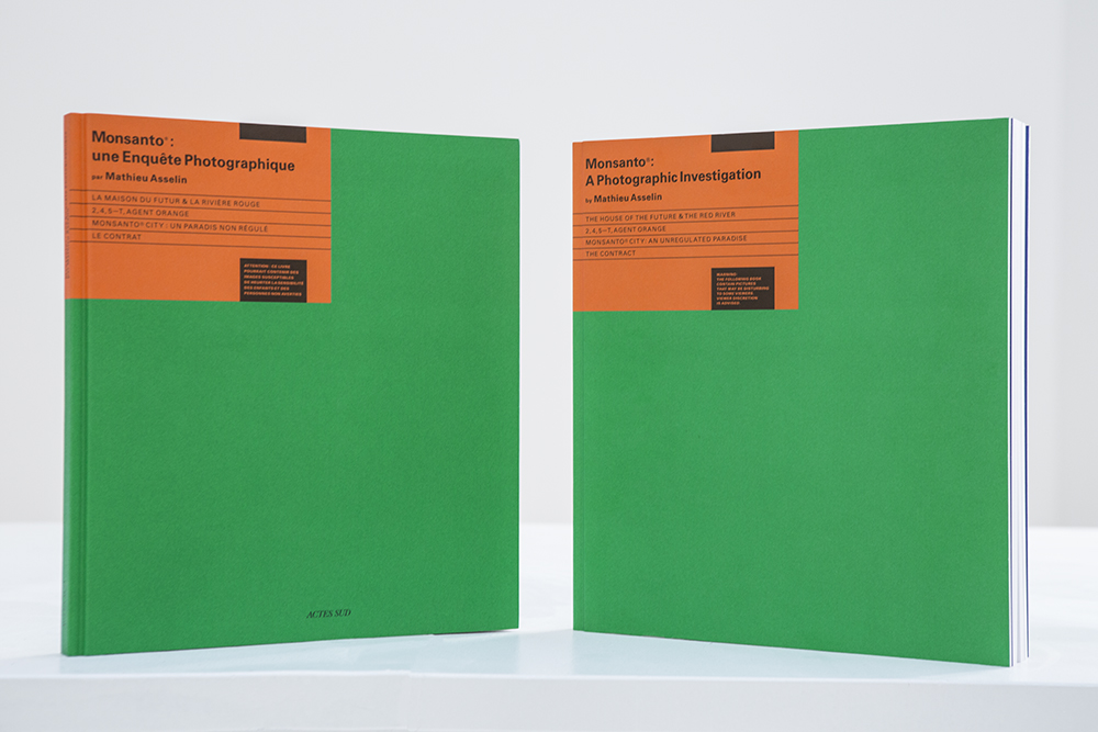 Monsanto: A Photographic Investigation by Mathieu Asselin. Published by Actes Sud (France) and Verlag-Kettler (Germany) June 2017